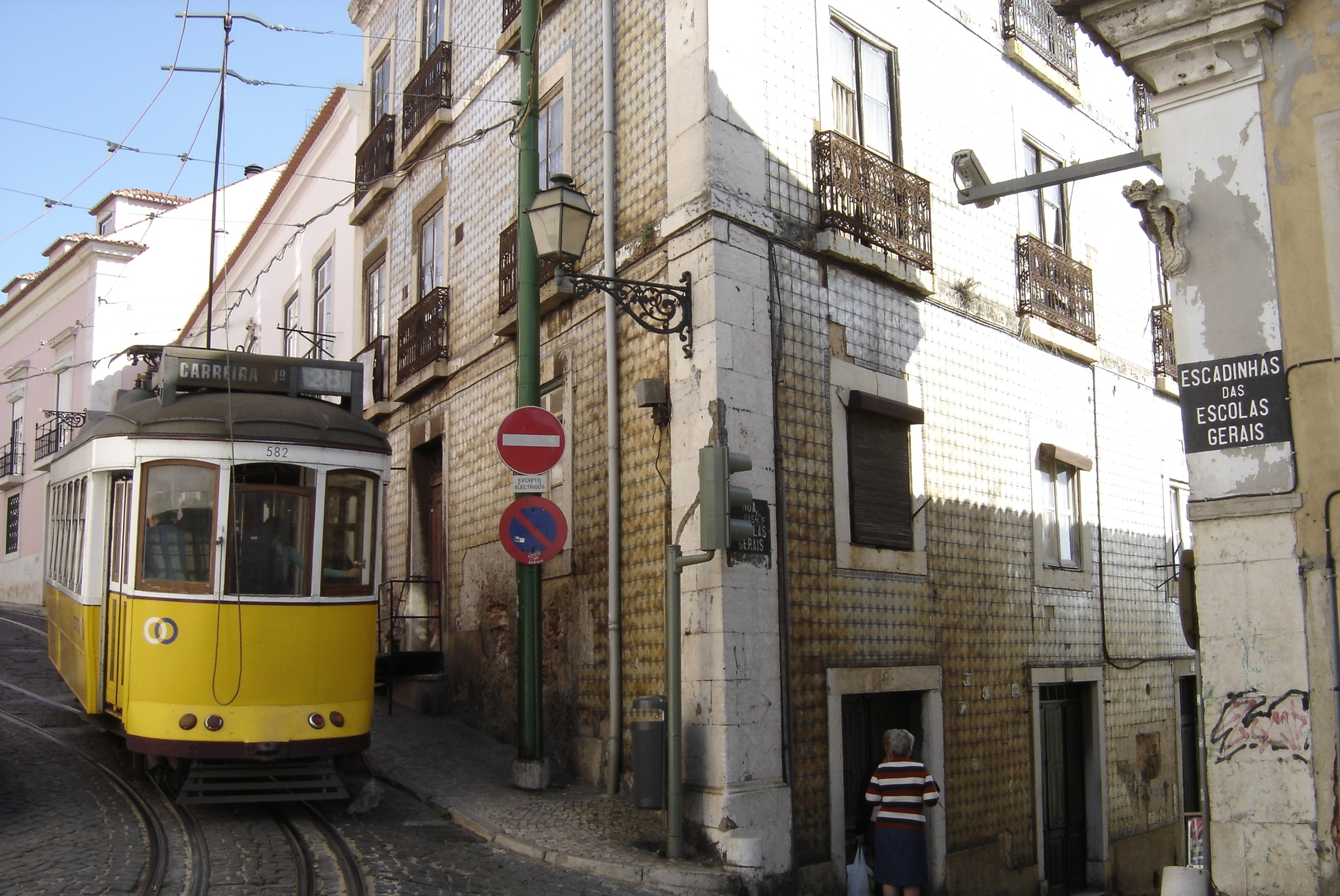 Alfama, Lisboa